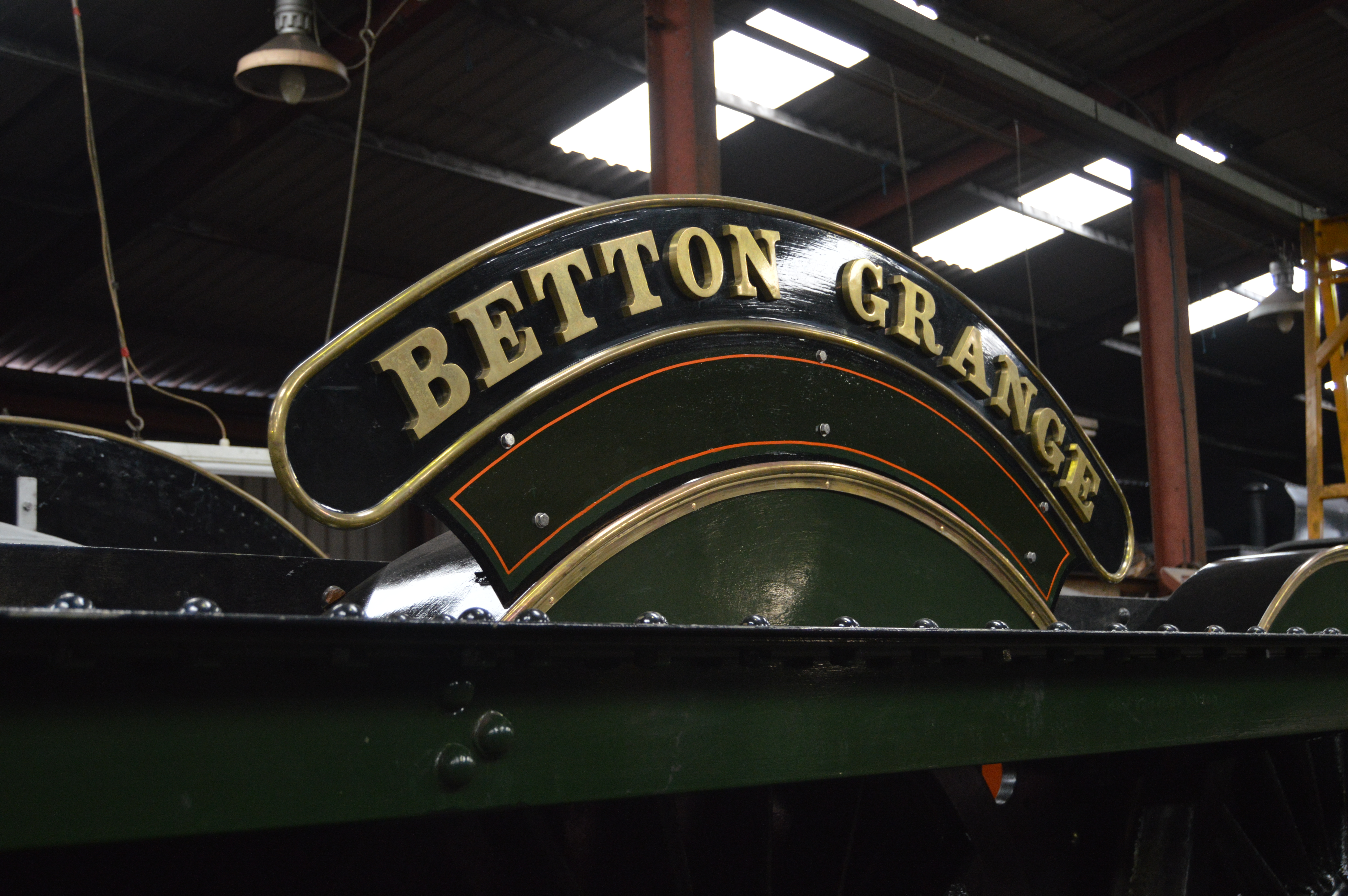 One of Betton Grange's nameplates on her frames.